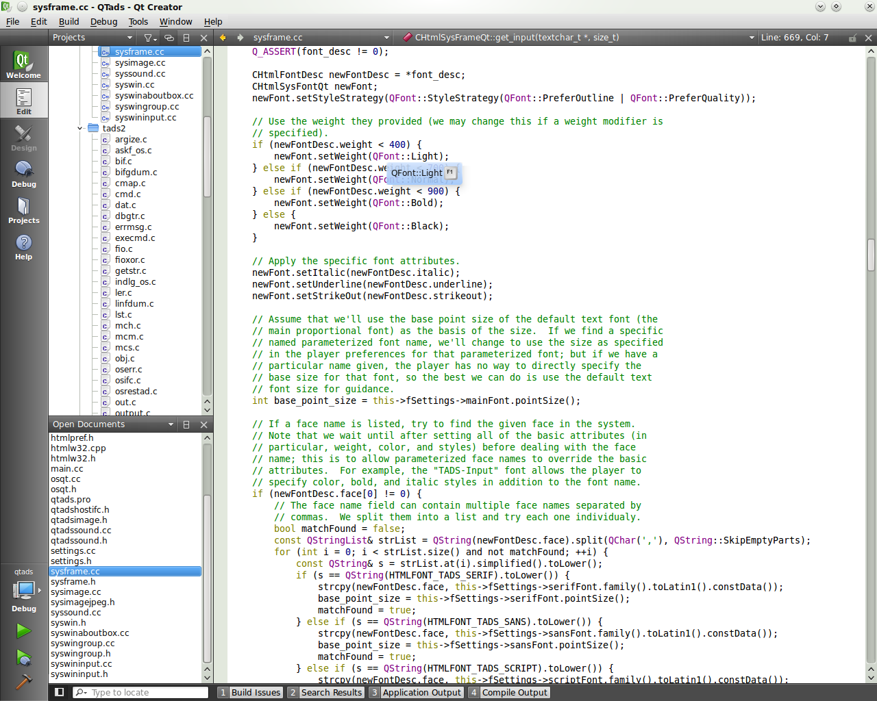 Screenshot of Qt Creator 2.0.1 running in Gentoo Linux.